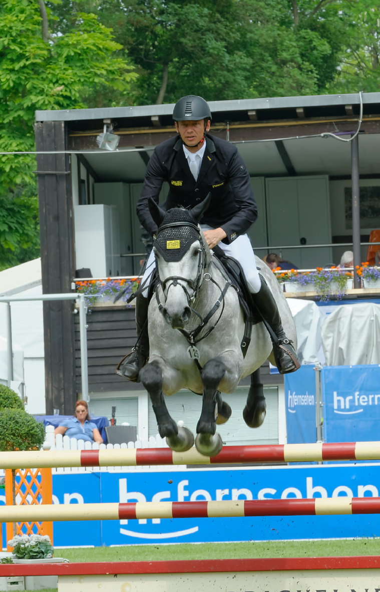 CSIYH* int. Springprüfung nach Strafpunkten und Zeit Internationales Pfingstturnier Wiesbaden 2015 The making of this document was supported by the Community-Budget of Wikimedia Germany.